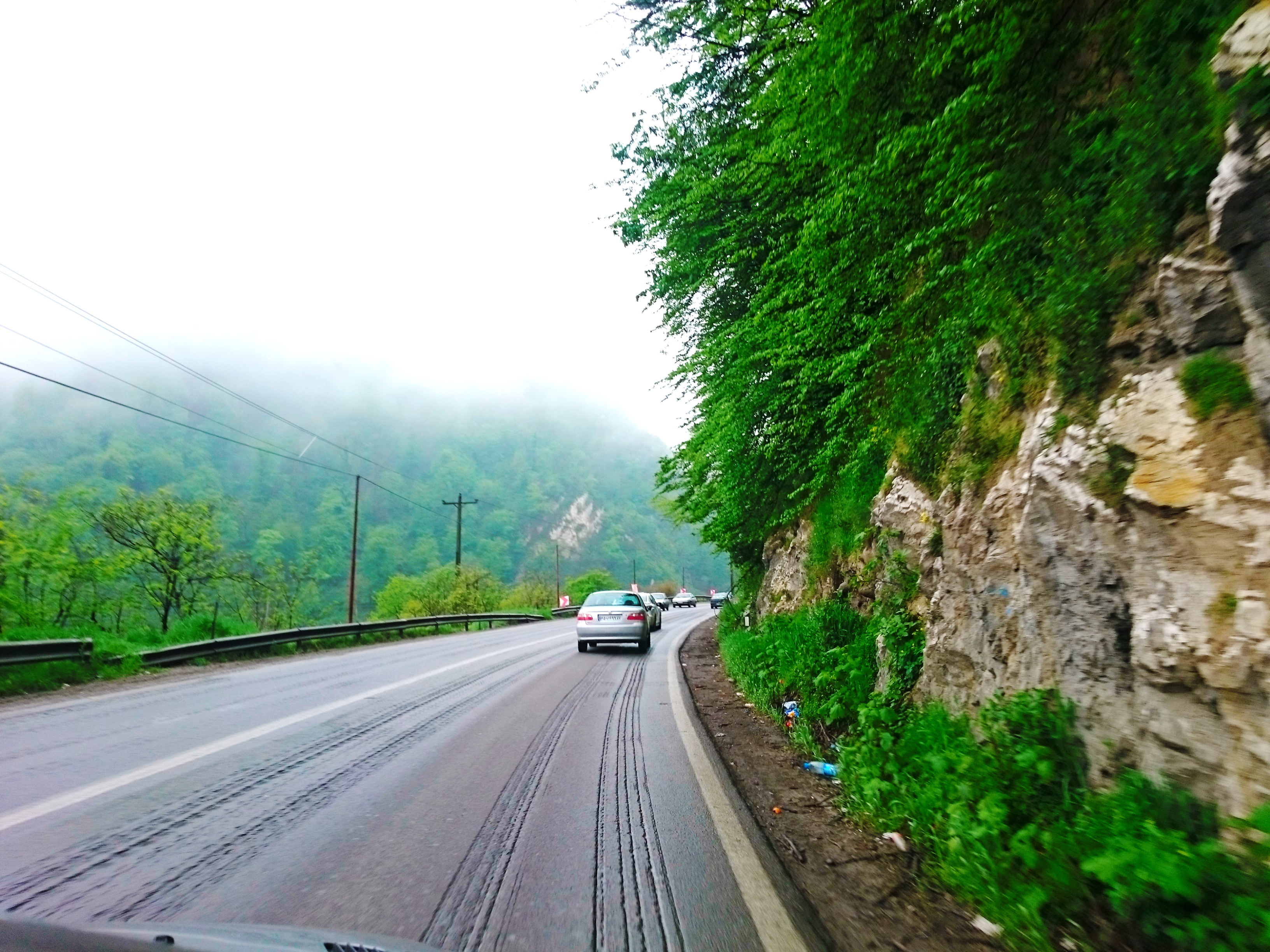 Nice road of Haraz